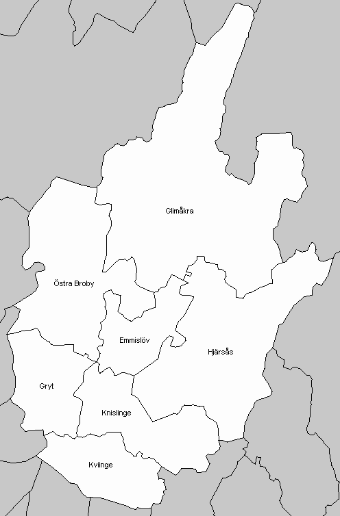 socken in Östra Göinge